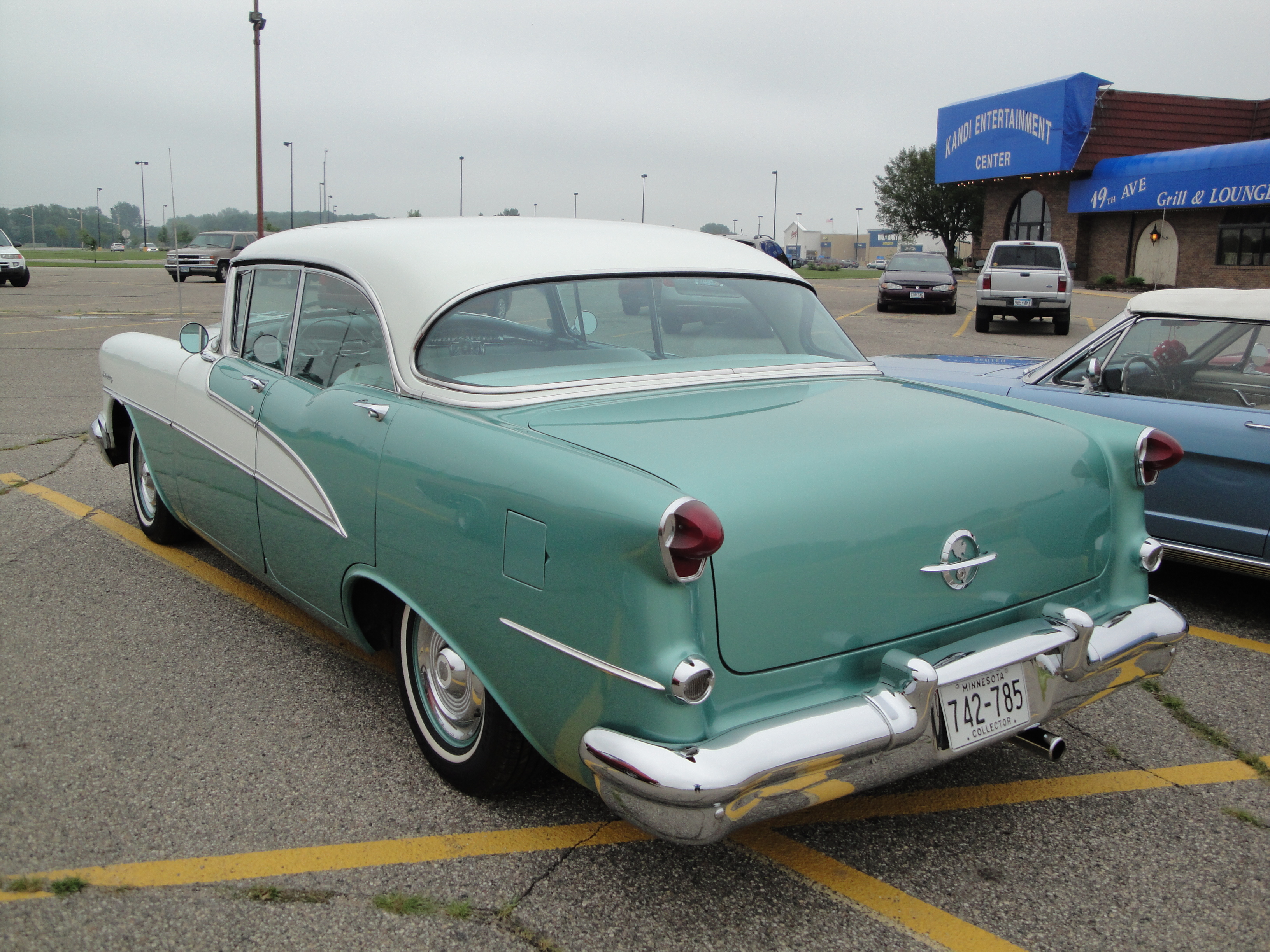 Willmar Car Club's Car Buffs' Breakfast and Pennock Parade